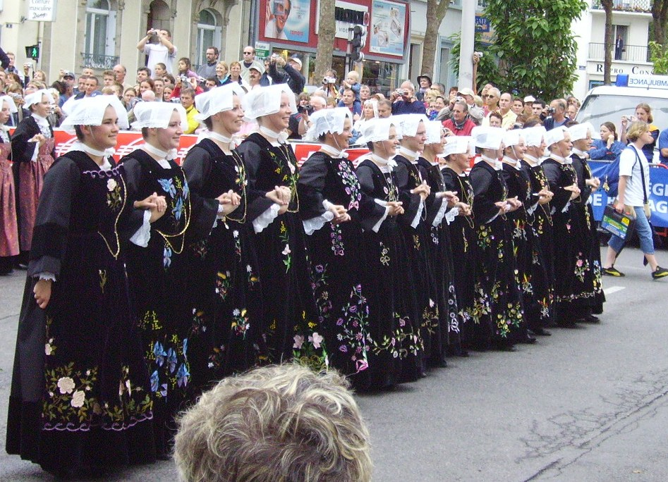 Brittons dancers during the Interceltic Festival in Lorient, France.